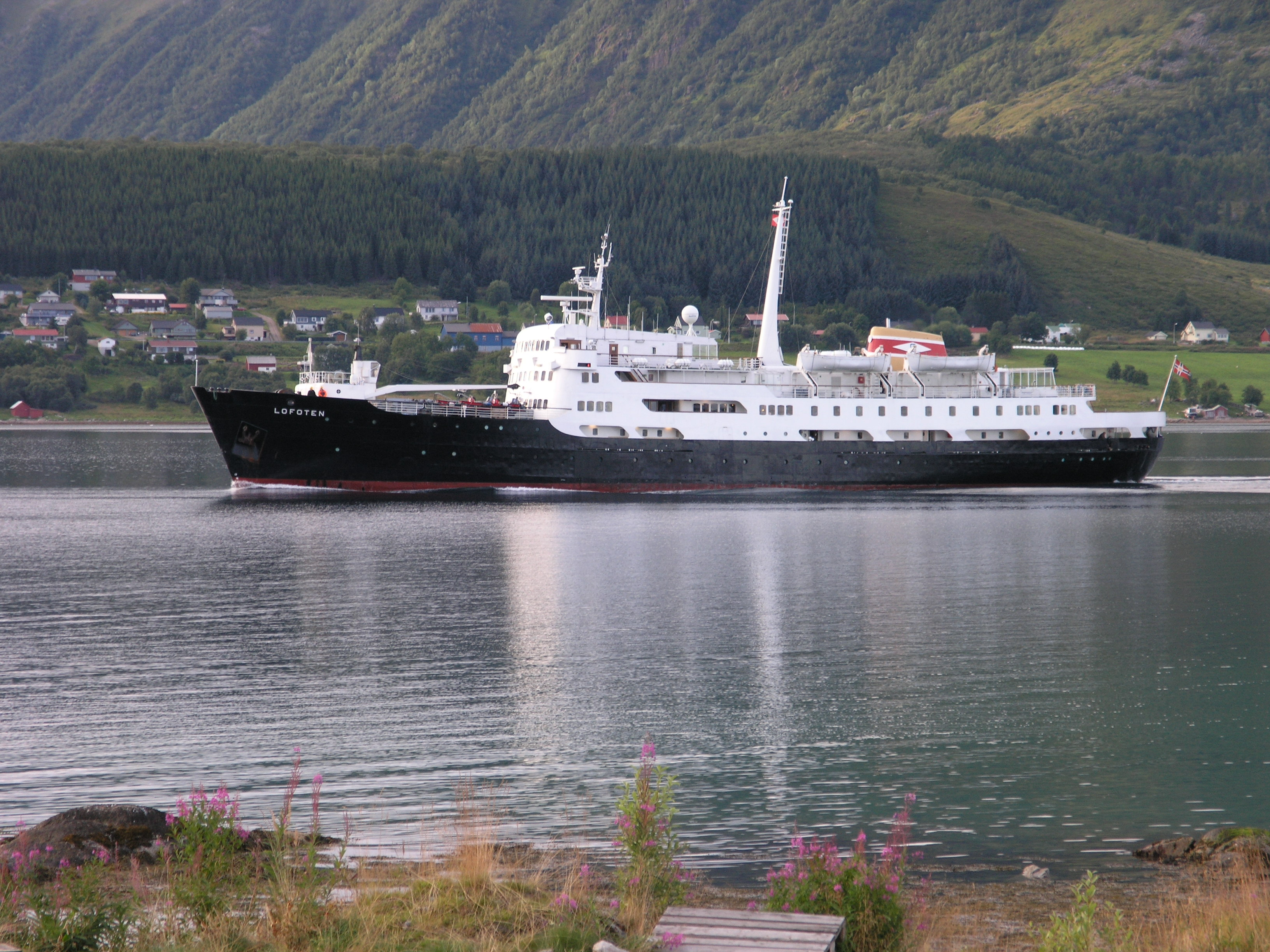 Ferry Lofoten